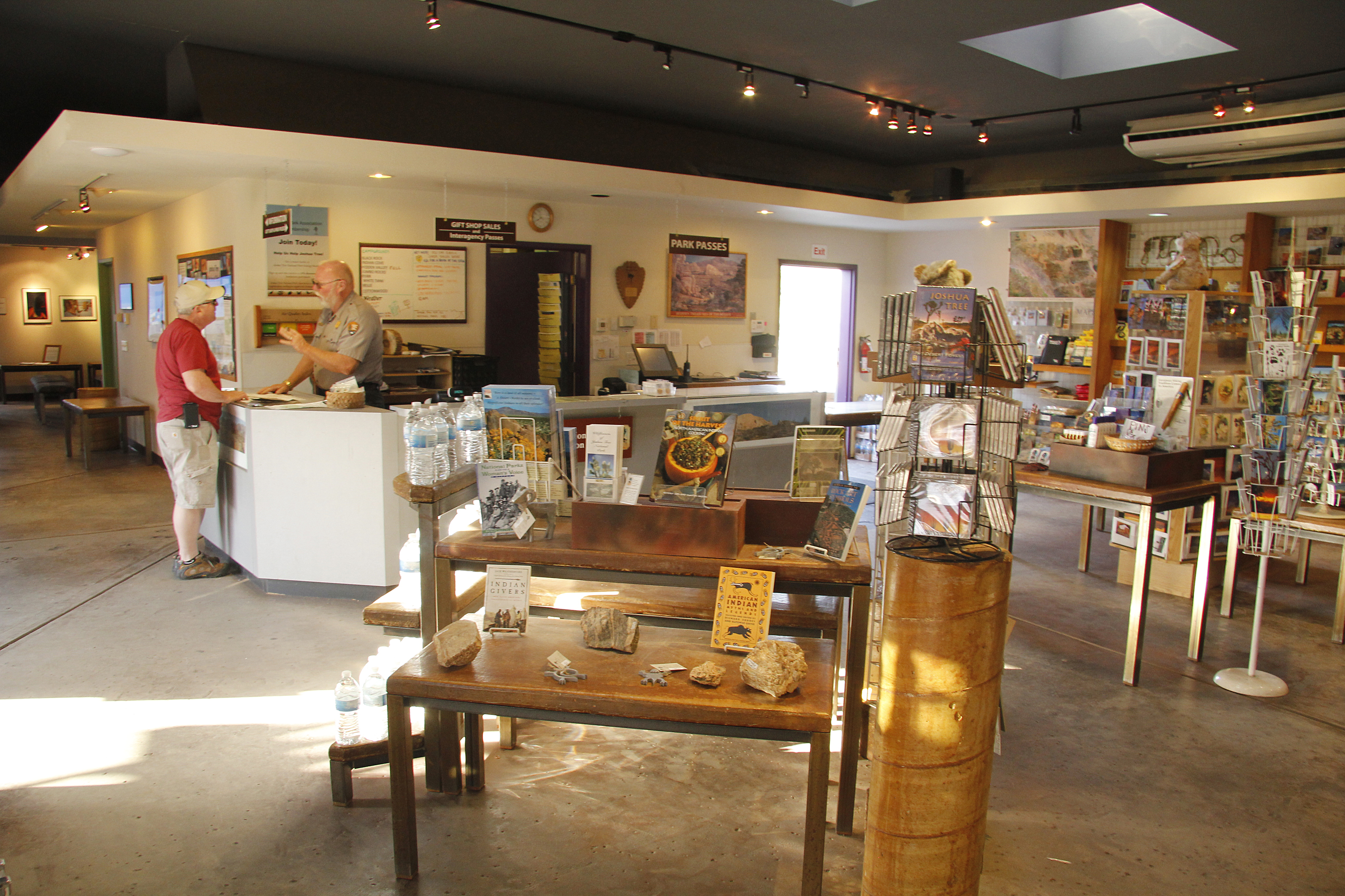 Located in Joshua Tree Village, Joshua Tree Visitor Center is the largest and busiest ranger station in Joshua Tree National Park. This is considered the west entrance.